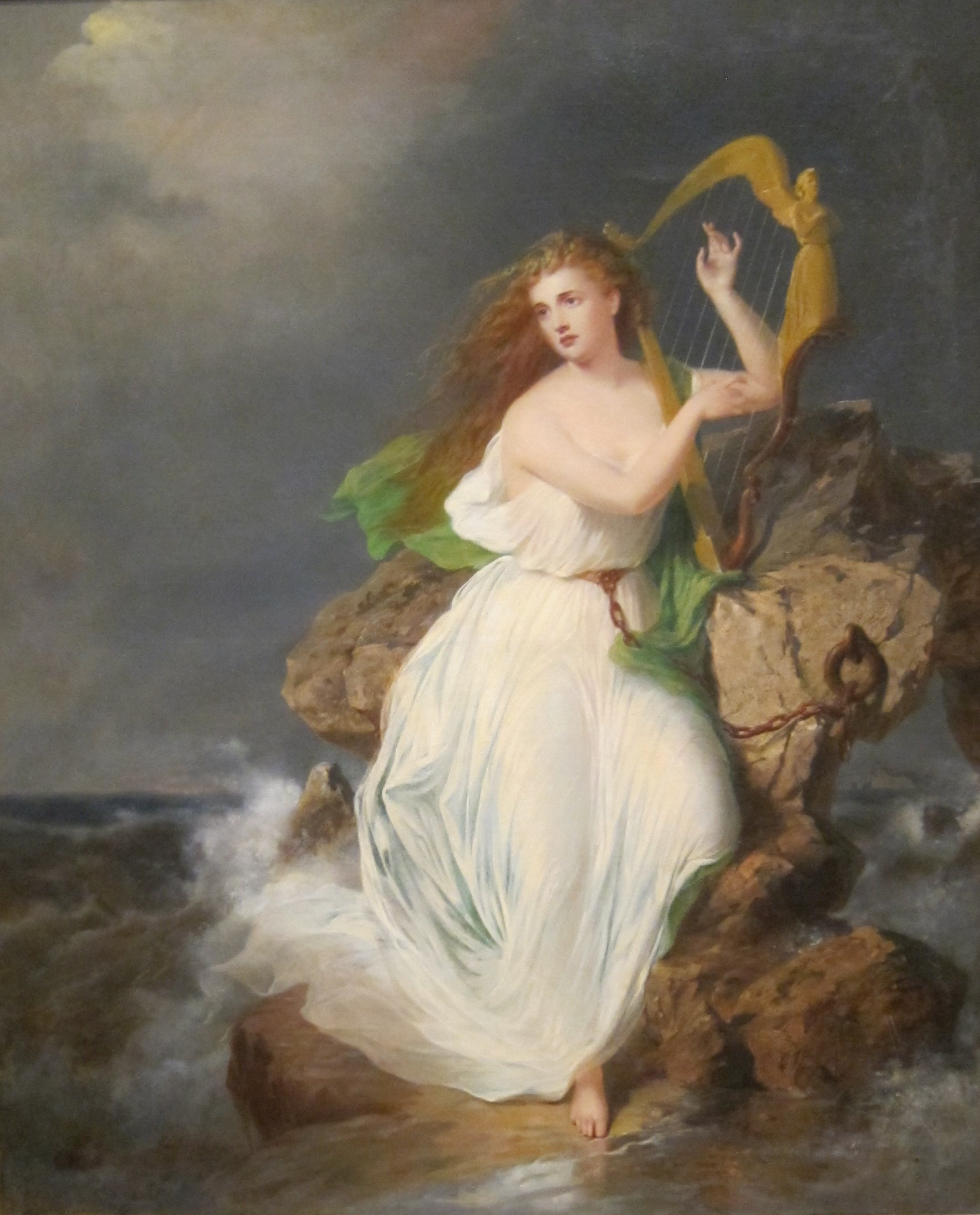 The Harp of Erinlabel QS:Len,"The Harp of Erin"